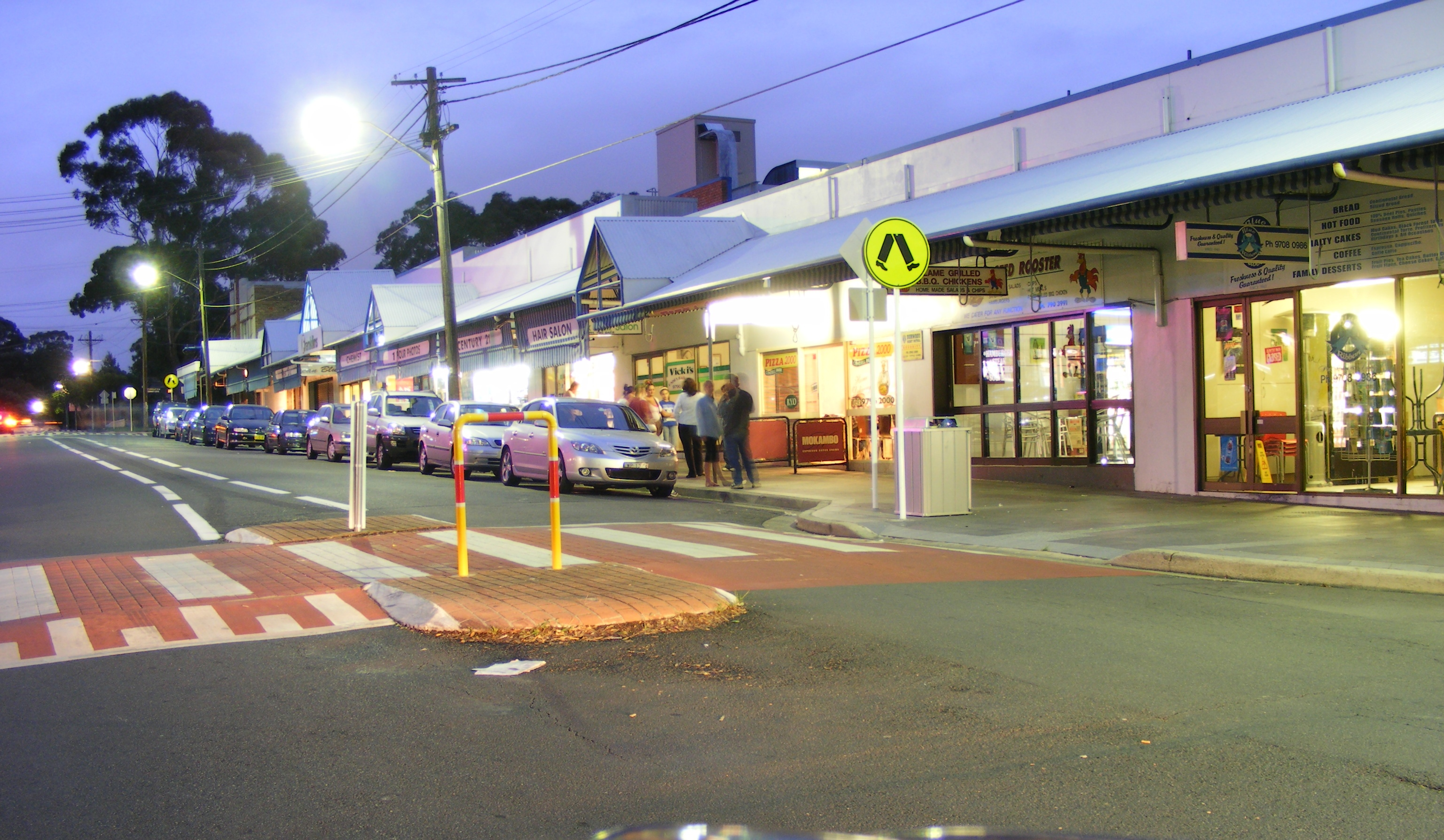 Nightlife in the City of Bankstown